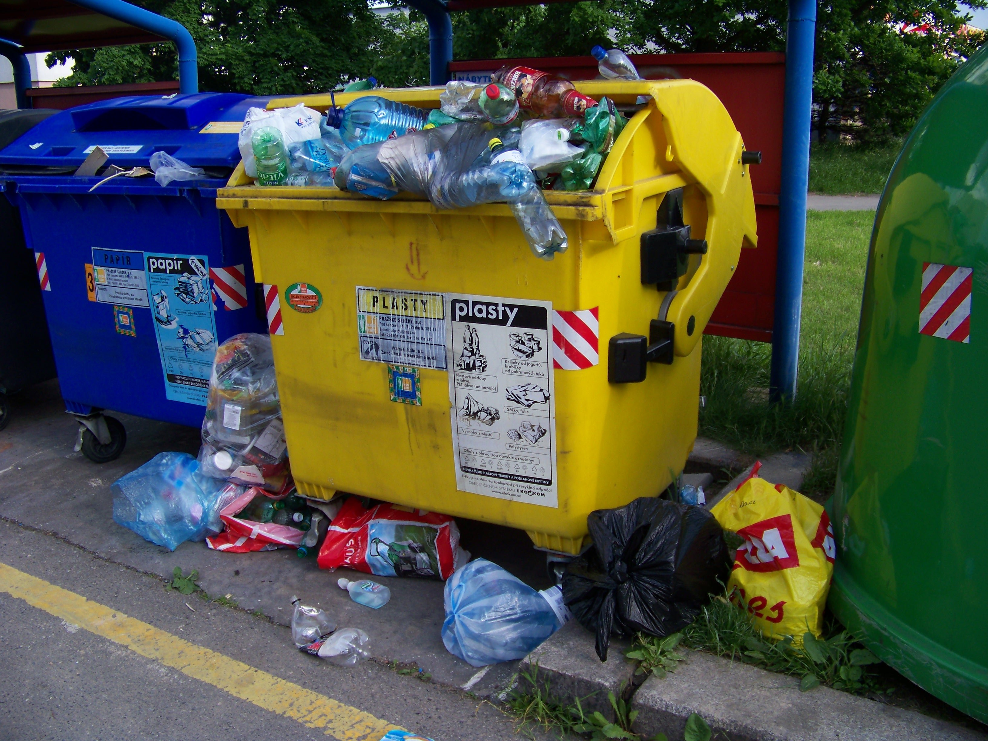 Chodov, Prague, the Czech Republic. Křejpského street, sorted waste containers.